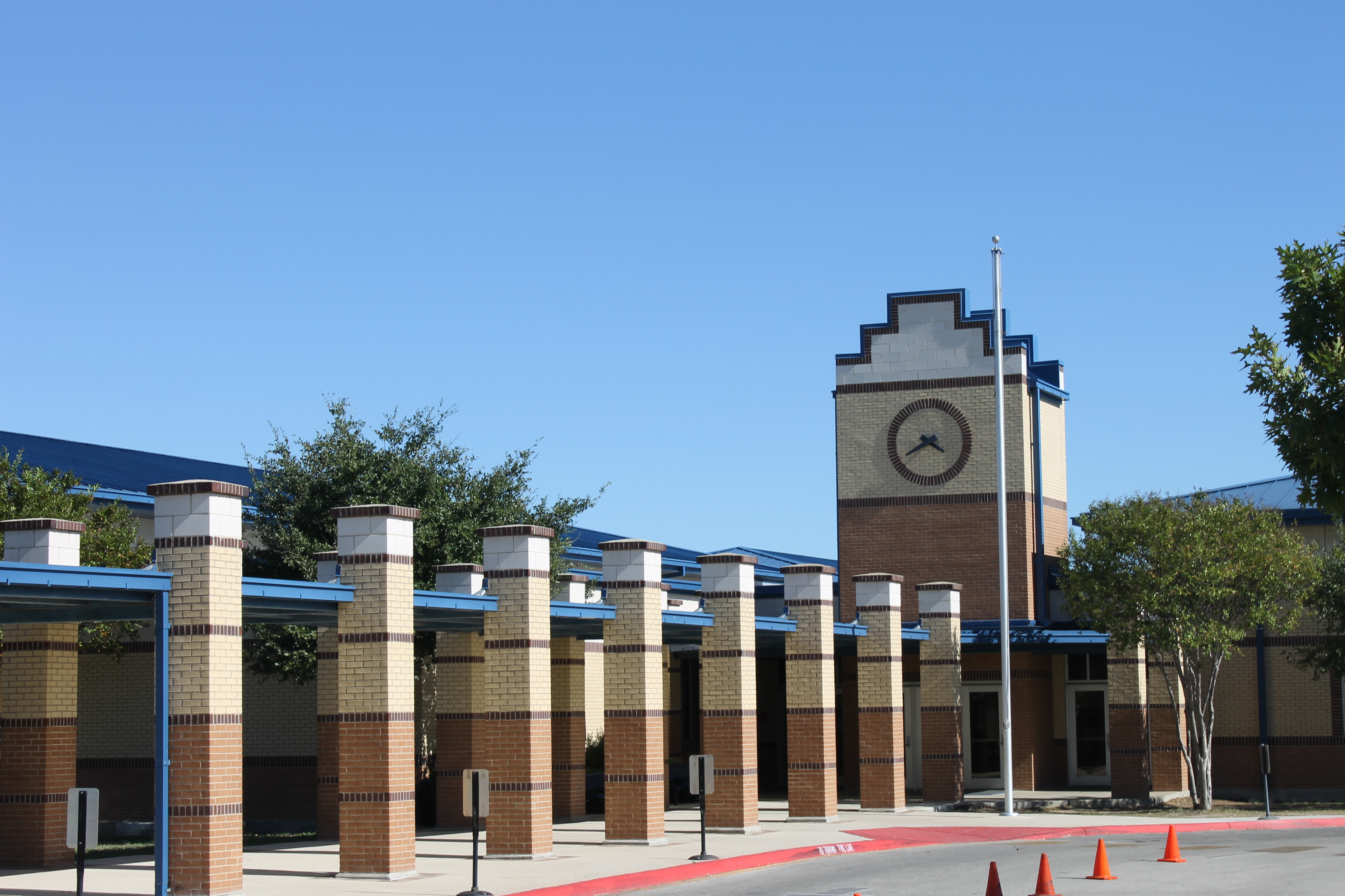 I took photo of Thomas L. Hatchett, Sr., Elementary School in San Antonio, TX.